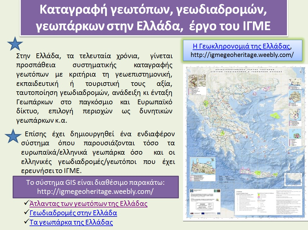 IGME GIS for Greek Geoparks and Geotops